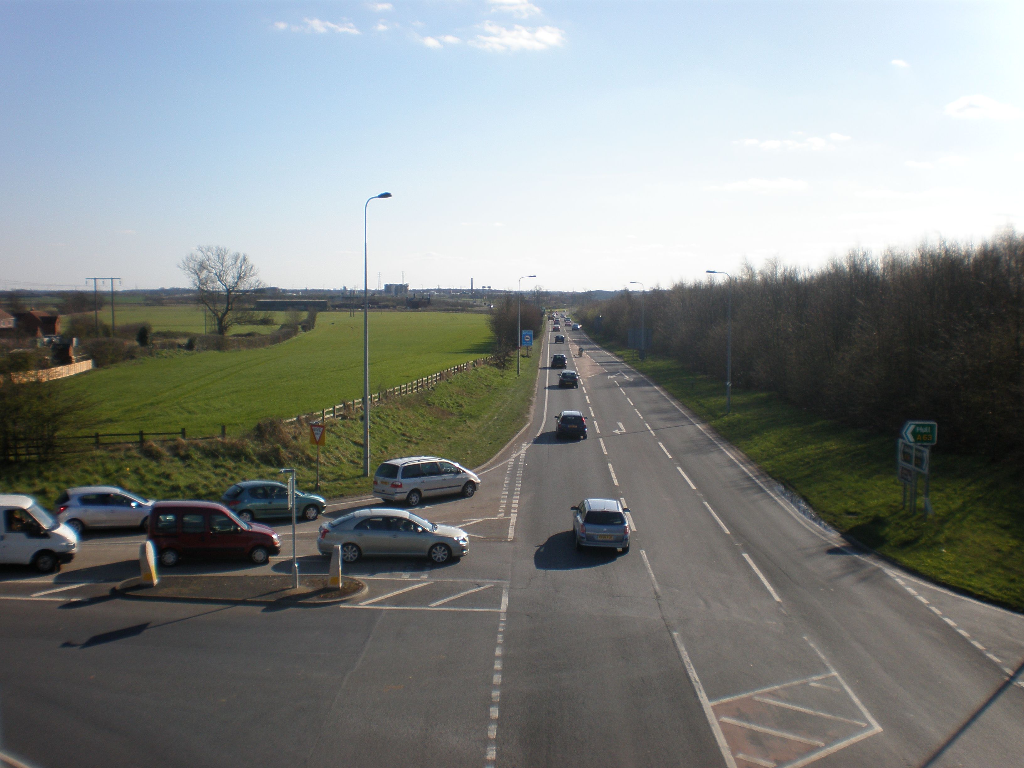 A19 Junction between Barlby and Osgodby